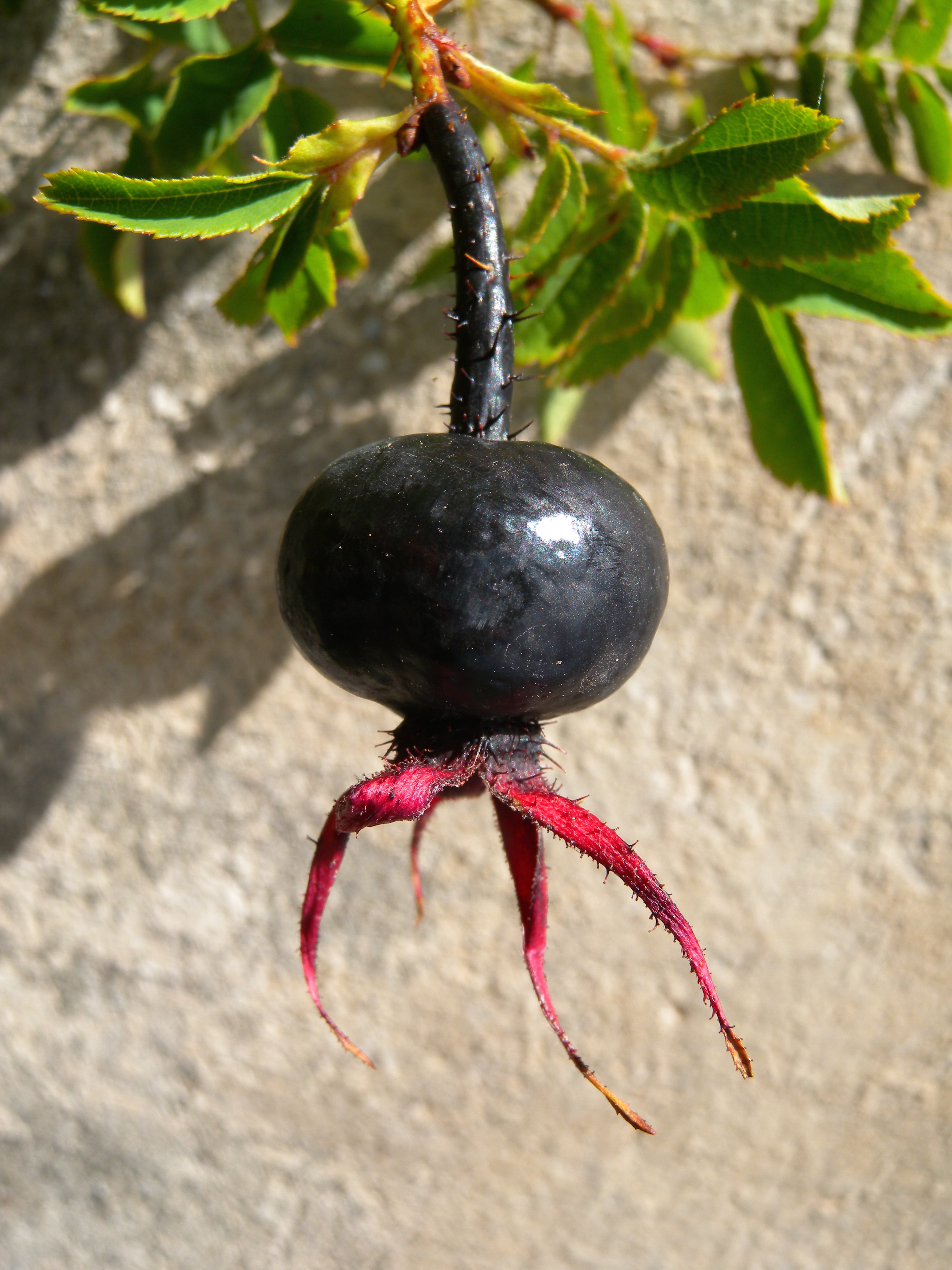 Fruit of Rosa pimpinellifolia (Rosaceae), Bern, Switzerland